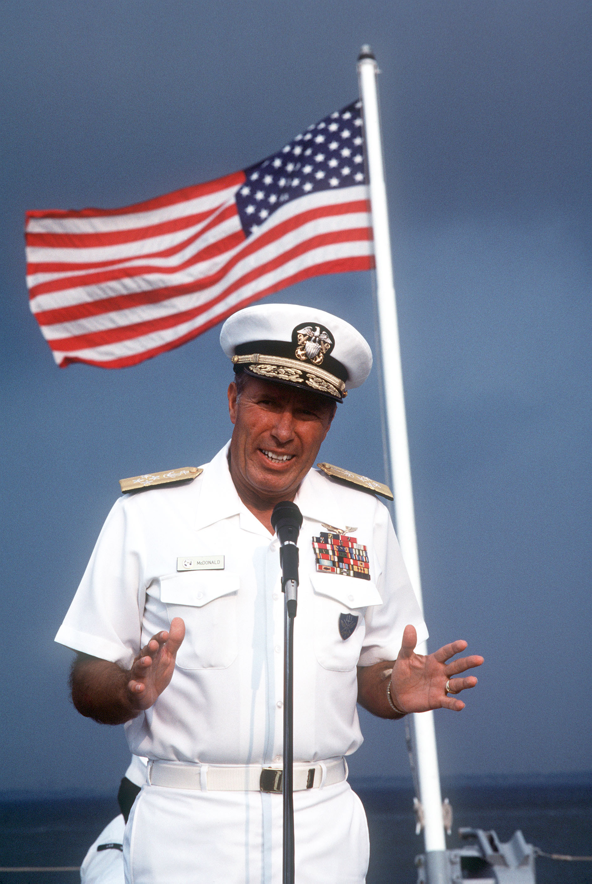 Admiral Wesley McDonald, Commander in Chief, United States Atlantic Fleet, speaks at the presentation of the 1984 Batternberg Cup to the crew of the battleship USS Iowa (BB 61). The award is presented for overall excellence among Surface Fleet Atlantic vessels. Photo taken at Naval Air Station, Norfolk, Virginia (VA) United States of America (USA)